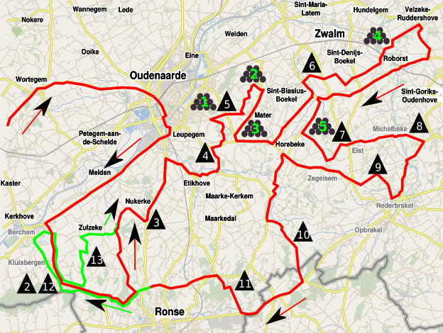 Map of the first lap of the Ronde van Vlaanderen 2015 men